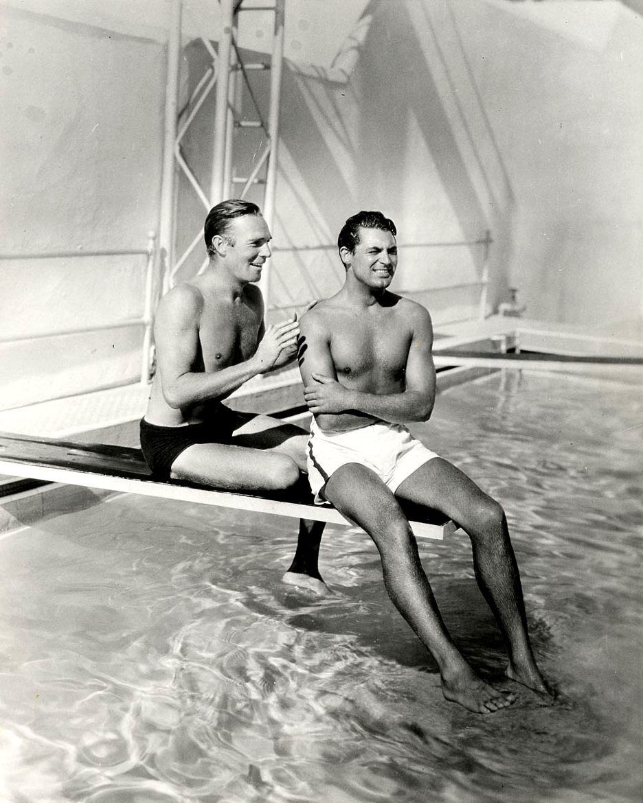 Publicity Photo of Randolph Scott & Cary Grant, 1940s.